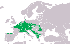 Distribution of Triturus_alpestris, based on Nöllert/Nöllert: "Die Amphibien Europas"